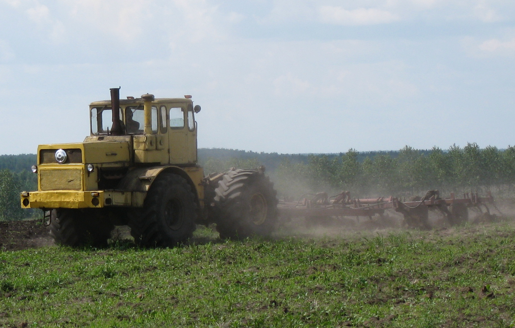 Kirovets K-701 working on a field somewhere near Suhobuzimskoe, Krasnoyarsk, Russia